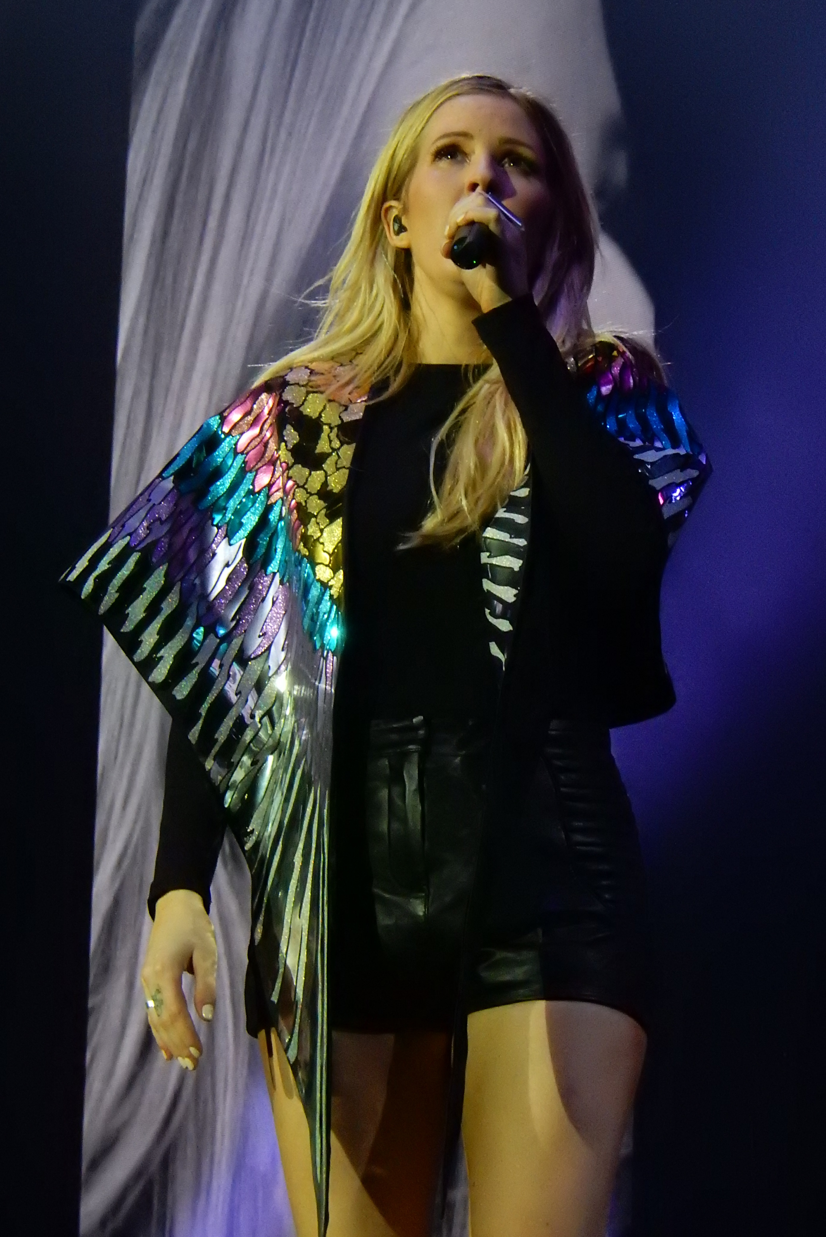 Ellie Goulding performing at the O2 Arena in London